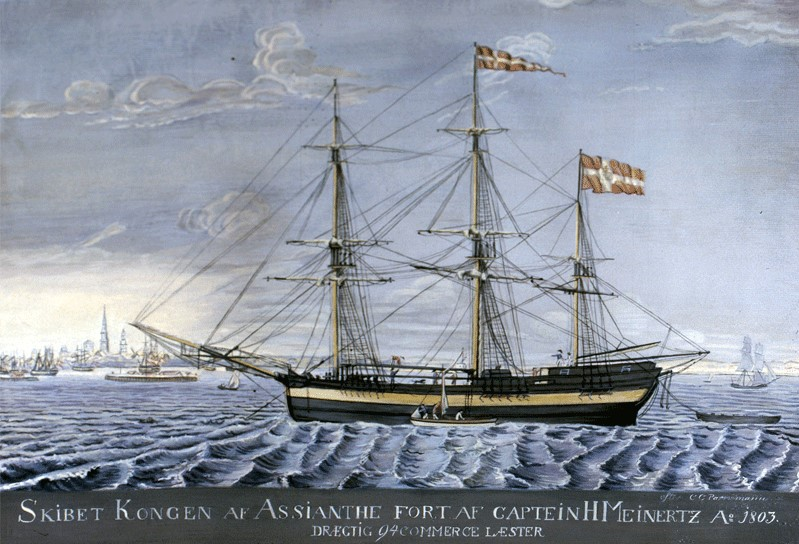 The ship Kongen af Assianthe at Reden in Copenhagen, Denmark. It was owned by Jeppe Prætorius and its captain was H. Meinertz